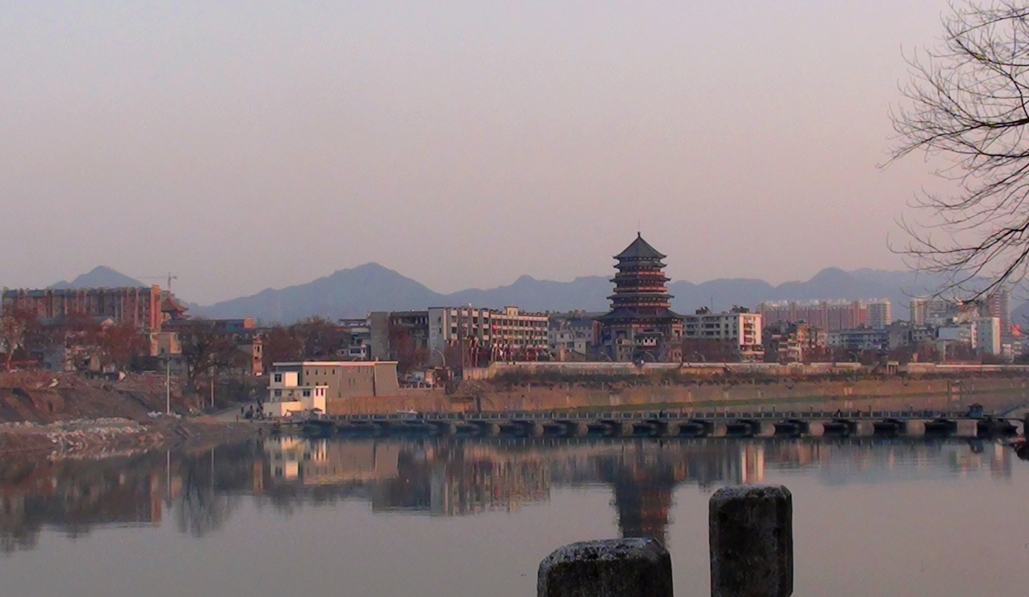 Zhushan District, Jingdezhen City, with the Chāng Jiāng (昌江, not the Cháng Jiāng 长江), which flows via the Po River into Lake Poyang.